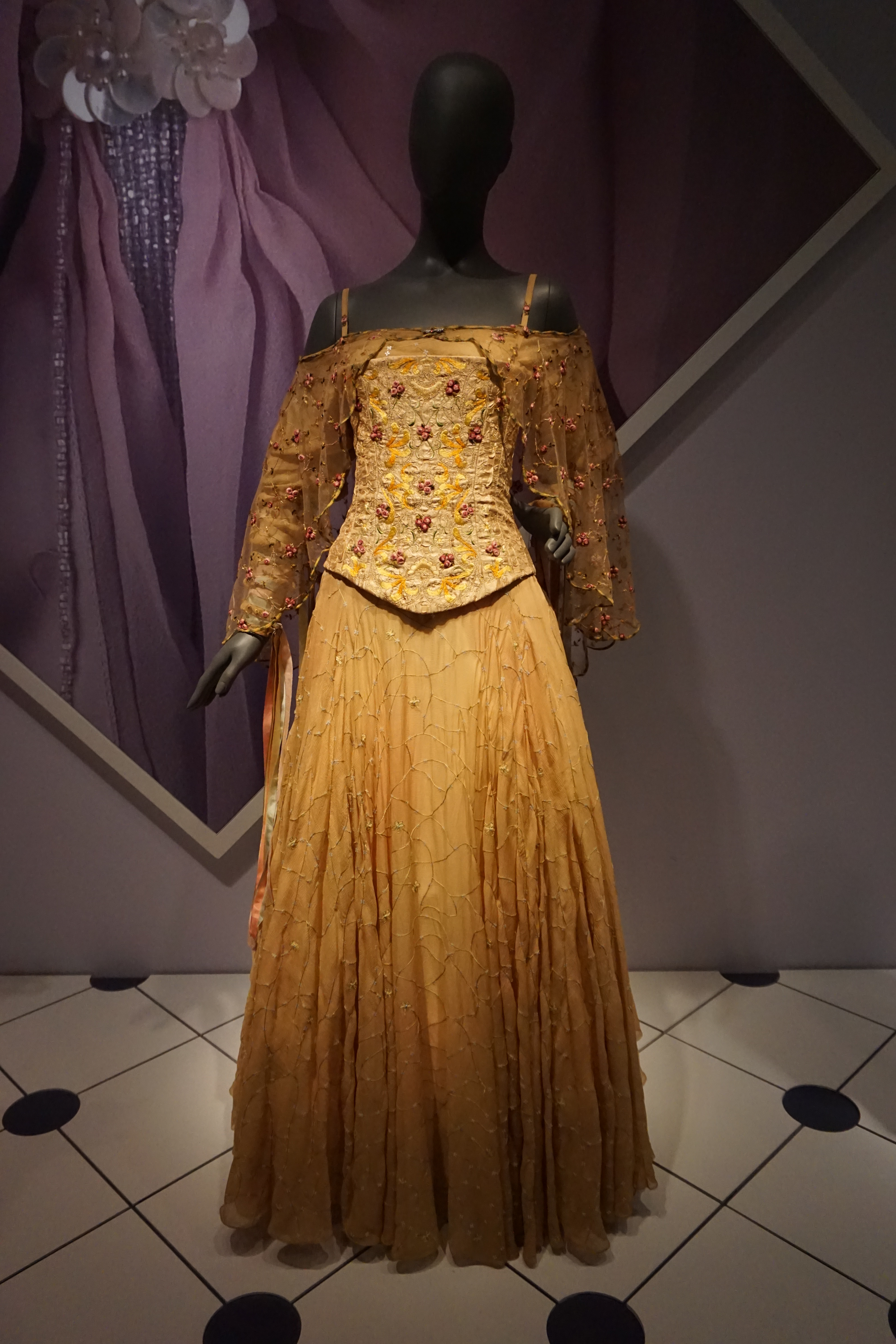 Padmé Amidala's meadow picnic dress from Star Wars: Episode II – Attack of the Clones on display at the Star Wars and the Power of Costume traveling exhibit at the Detroit Institute of Arts in Detroit, Michigan (United States).